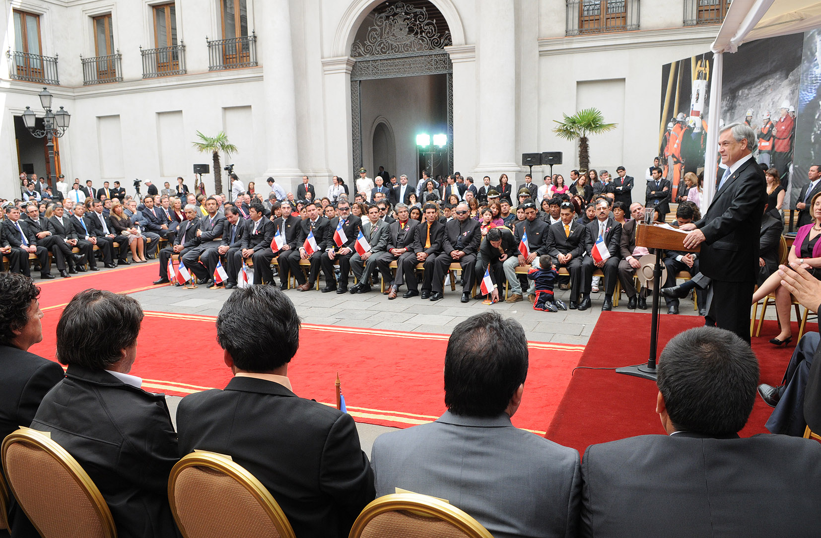 Los 33 miners attending a ceremony hosted by President Piñera at the Presidential Palace on 24 October 2010 after their rescue from the San Jose Mine.